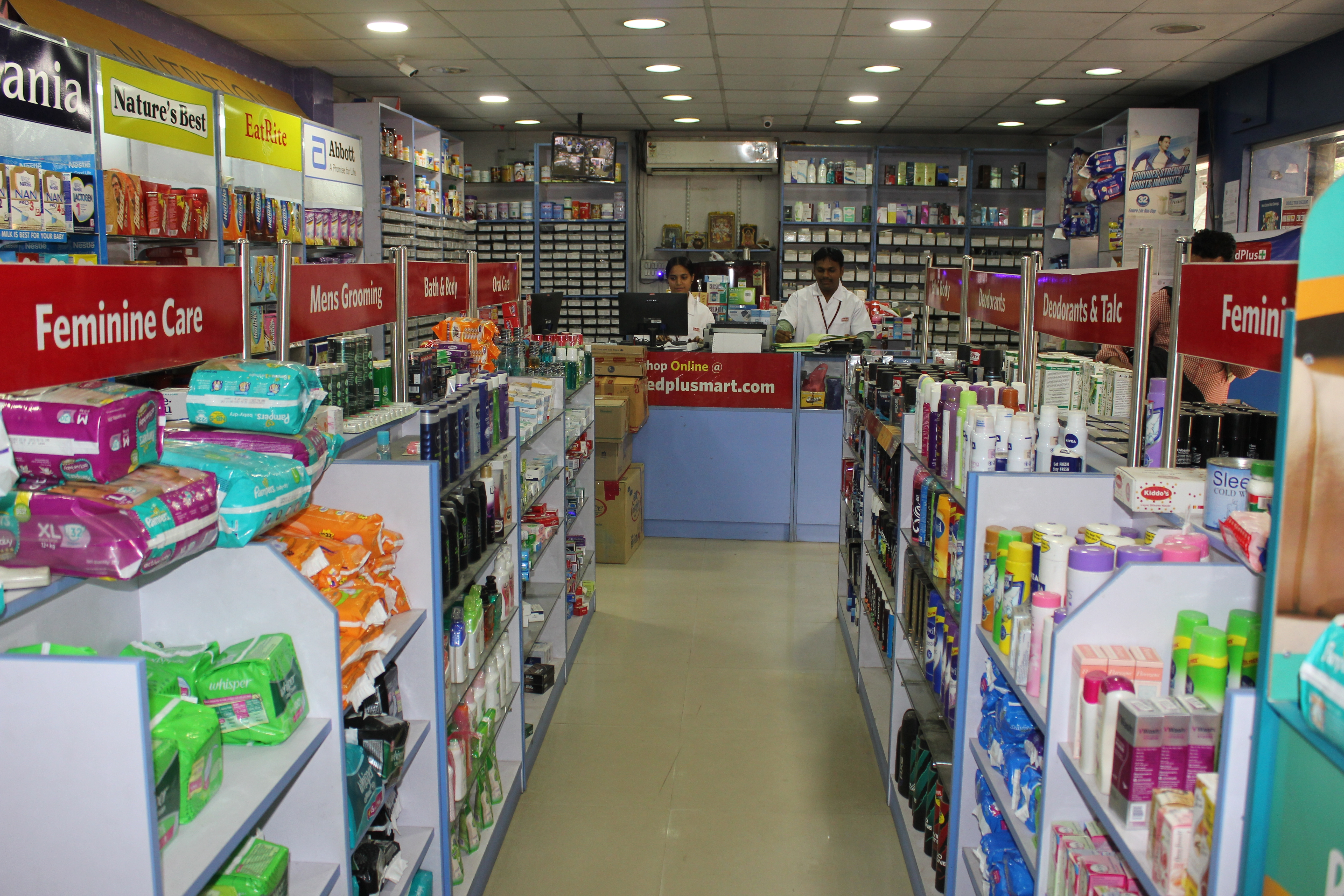 Interiors of a Medplus store